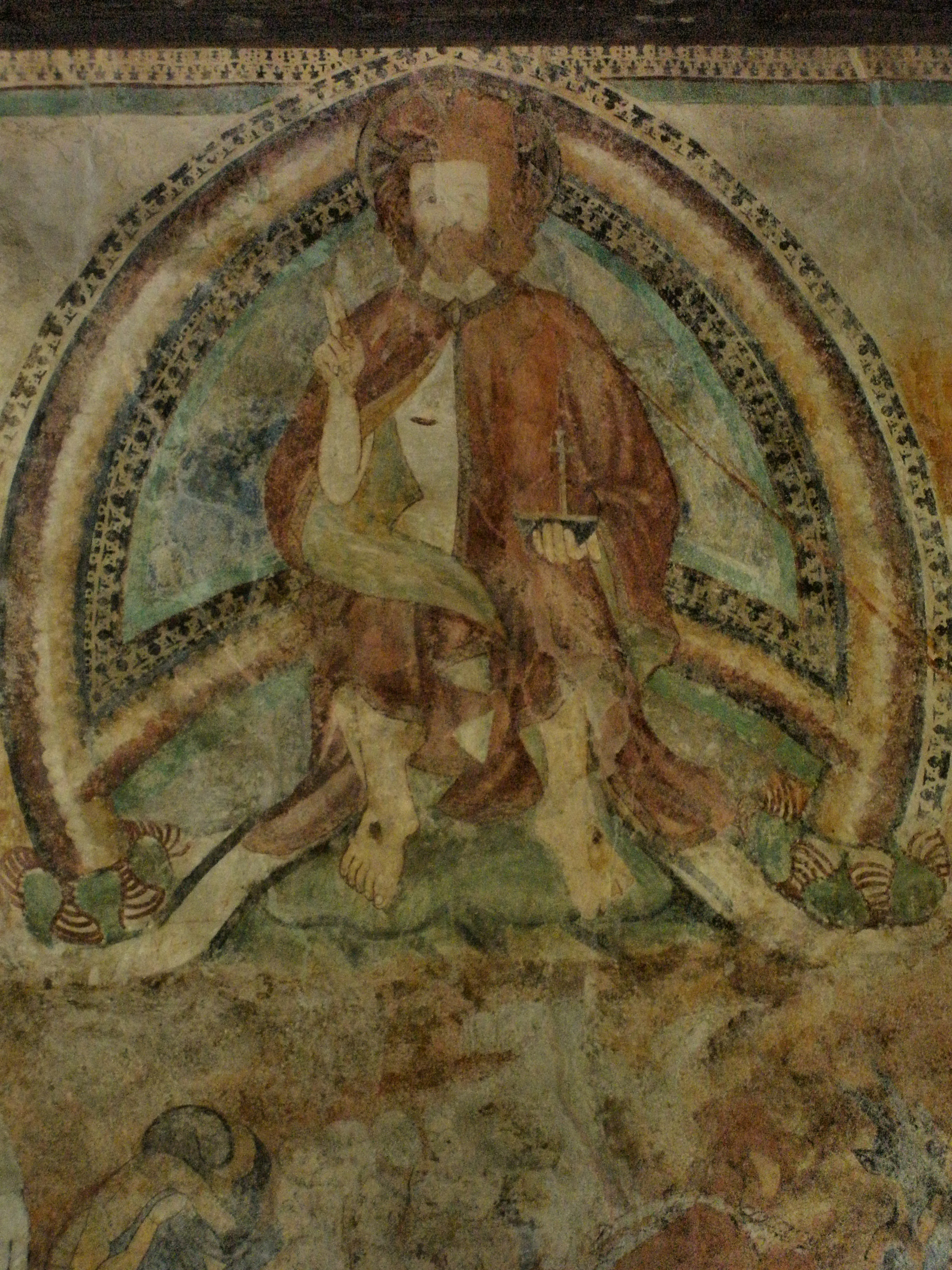 Fresco of 1471 at the entrance of the church of Adelboden showing Christ at the Last Judgment.